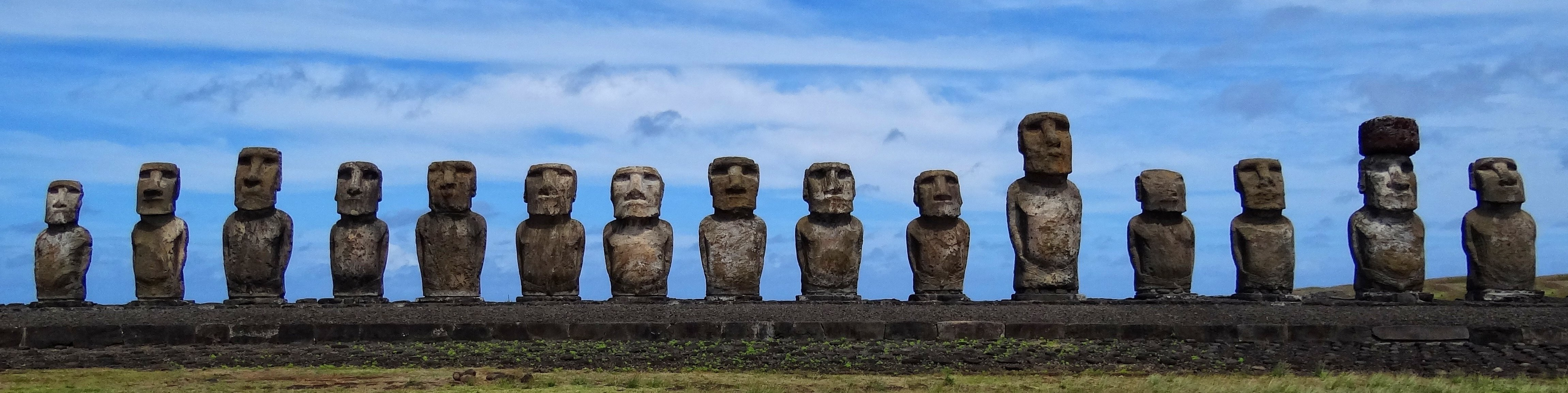 All the fifteen standing Moai of Ahu Tongariki, Easter island